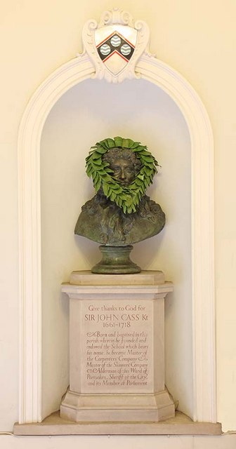 St Botolph without Aldgate, London EC3 - Monument, near to Shoreditch, Islington, Great Britain.